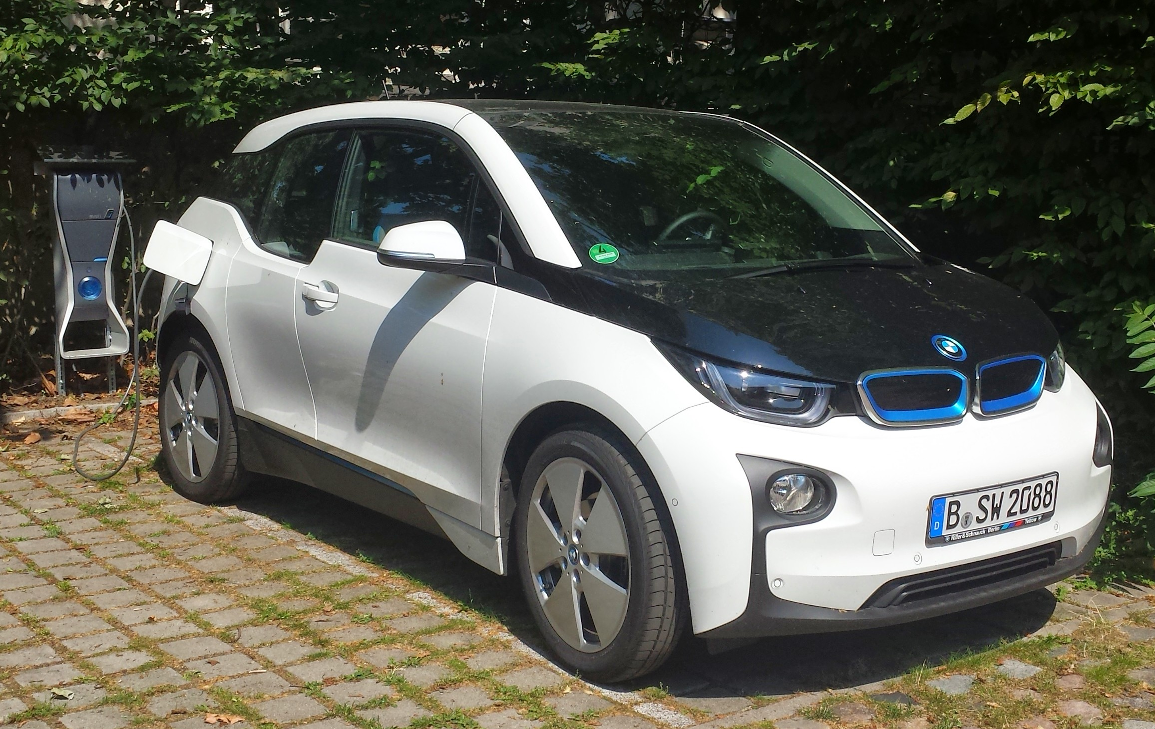 BMW i3 plugged in at a charging station in Berlin-Charlottenburg